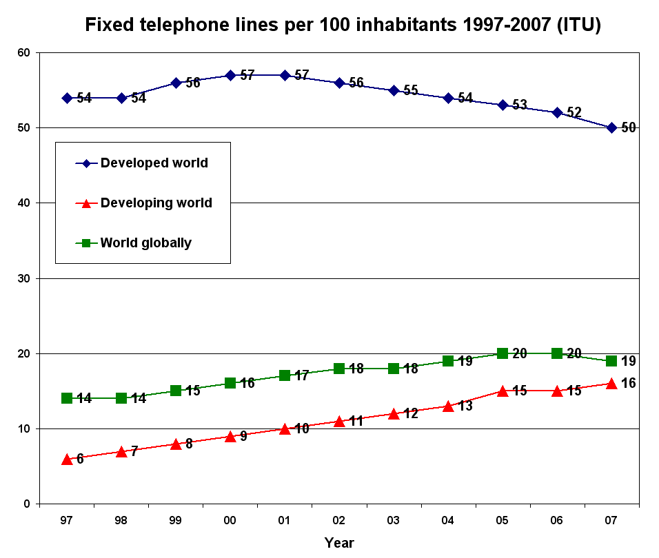 Fixed telephone lines per 100 inhabitants between 1997 and 2007 by International Telecommunication Union (ITU)